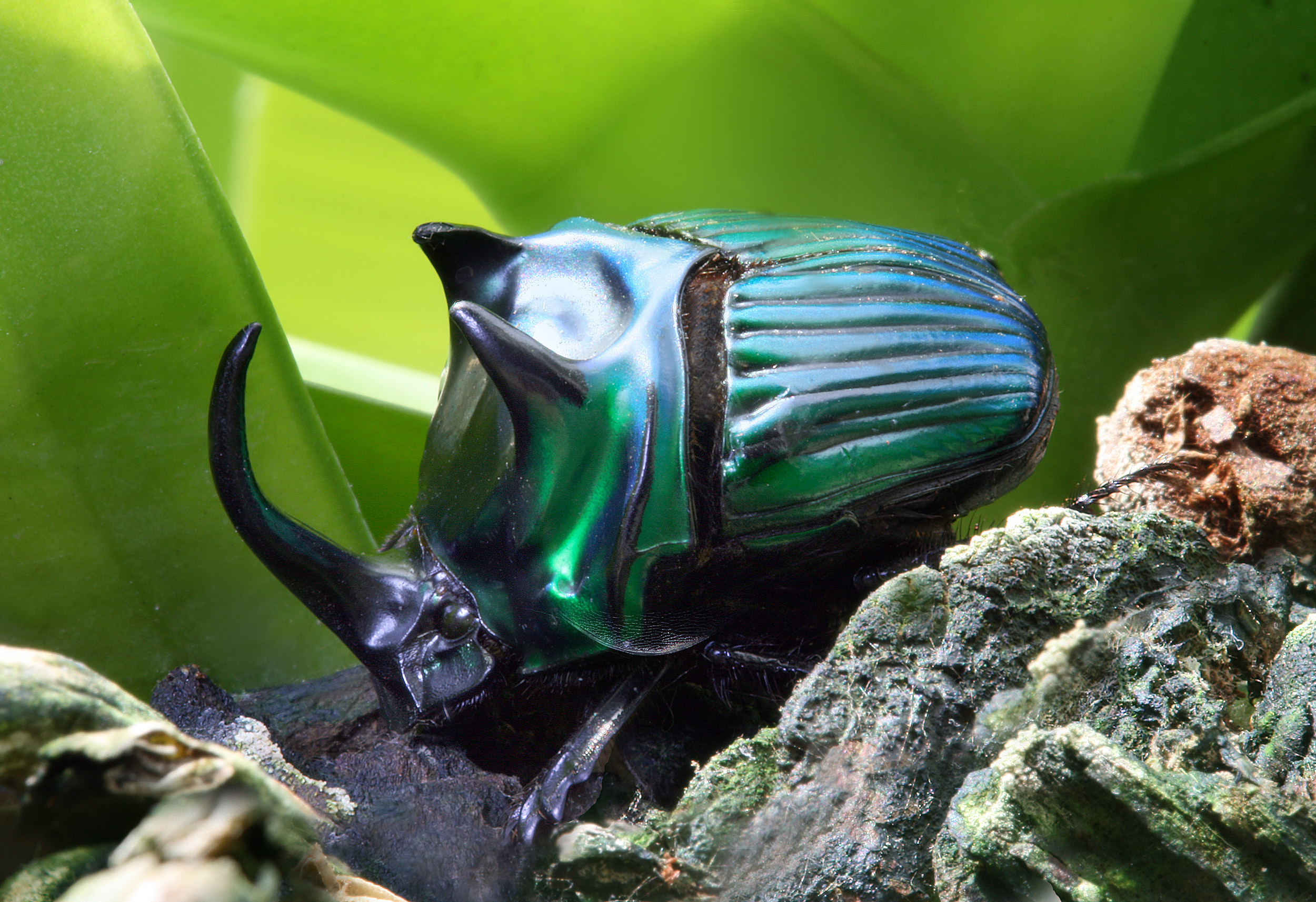 Description: An Oxysternon conspicillatum, male. The family Scarabaeidae as presently defined consists of over 30,000 species of beetles worldwide. The species in this large family are often called scarabs or scarab beetles. The classification of this family is fairly unstable, with numerous competing theories, and new proposals appearing quite often.